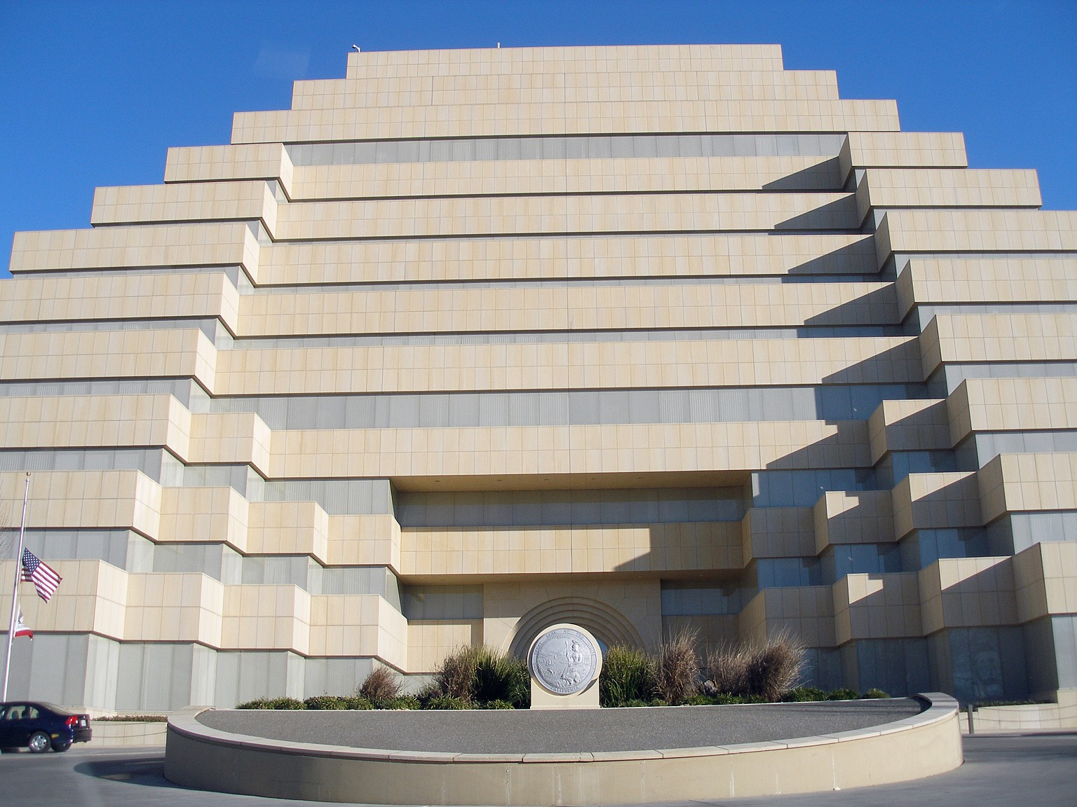 The Ziggurat — an office building in West Sacramento, on the Sacramento River in Yolo County. The headquarters of the California Department of General Services. Designed to resemble the ancient Mesopotamian ziggurats, the building was completed in 1997.